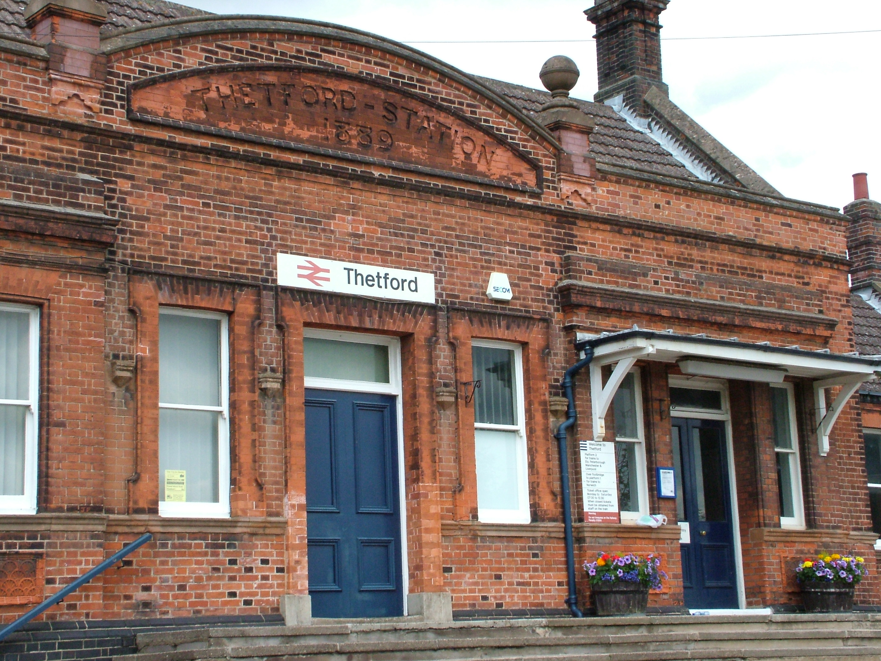 Thetford (Norfolk), railway station